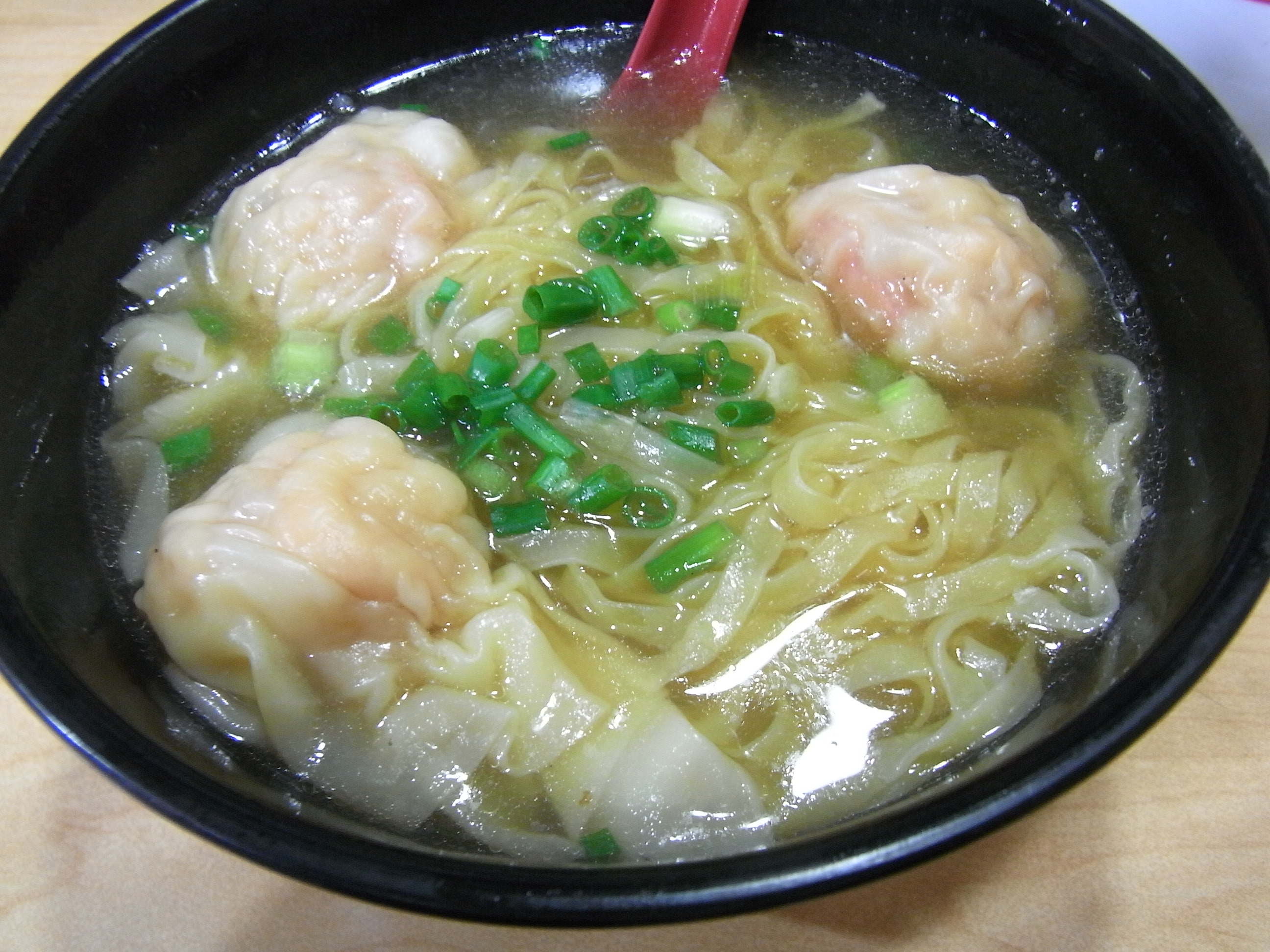 Wonton noodle shop at Centre Street, Sai Ying Pun, Hong Kong